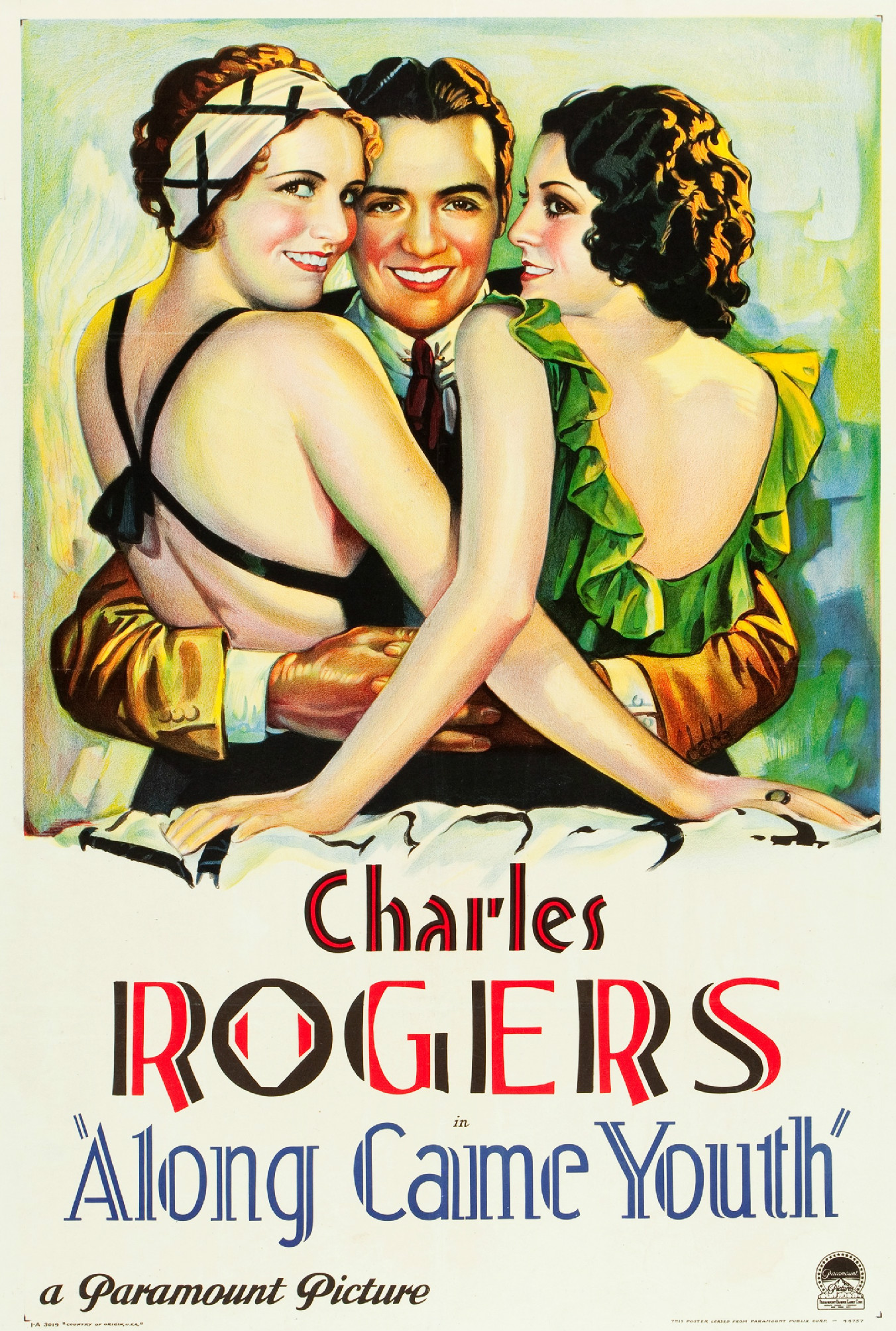 Poster for the 1930 film Along Came Youth. There are no copyright marks. At bottom left is 1-A 3019 Country of origin USA. At bottom right is This poster leased from Paramount Publix Corp.-44757.